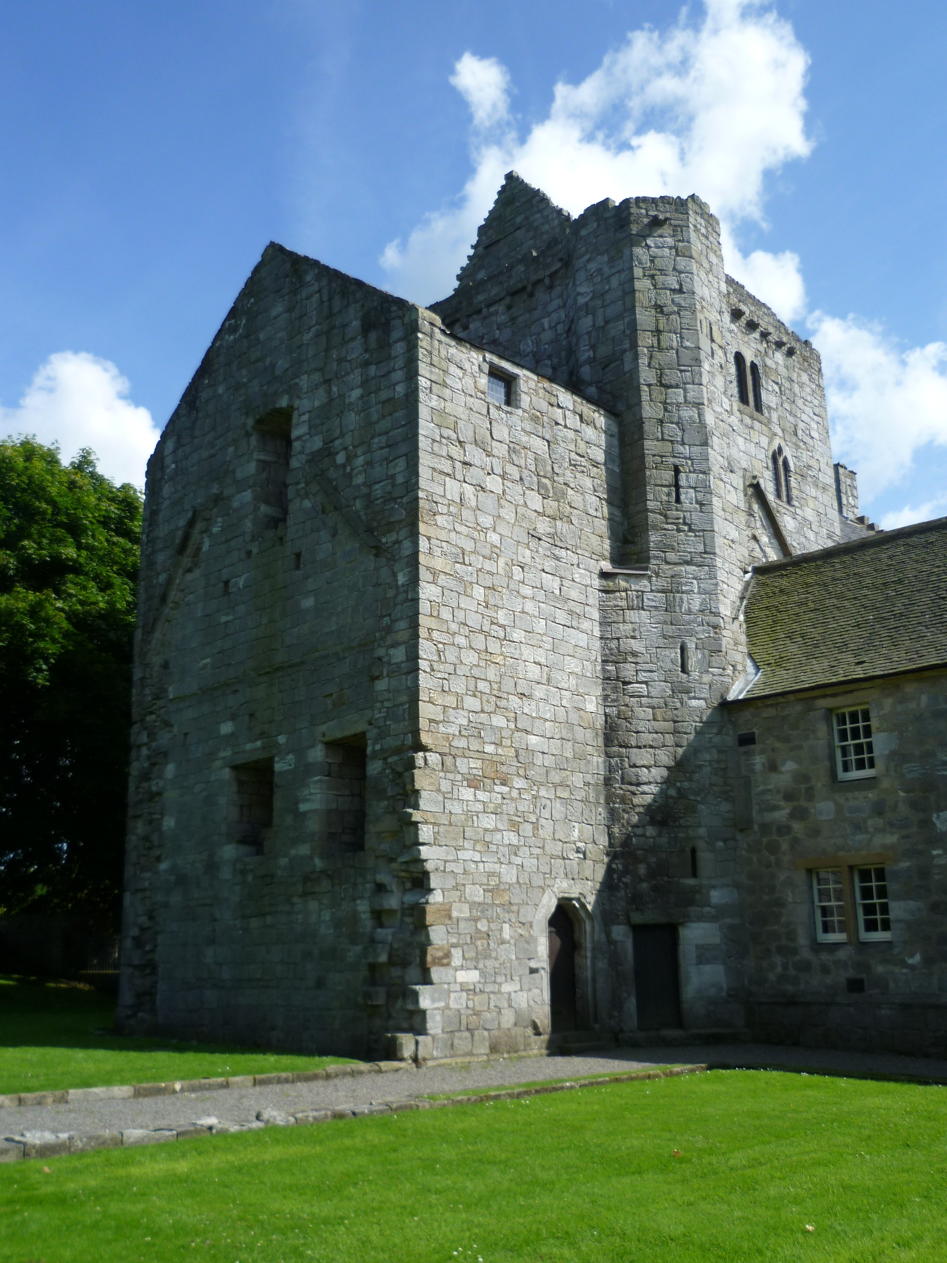 Remains of Torphichen Preceptory, attached to the later parish kirk.